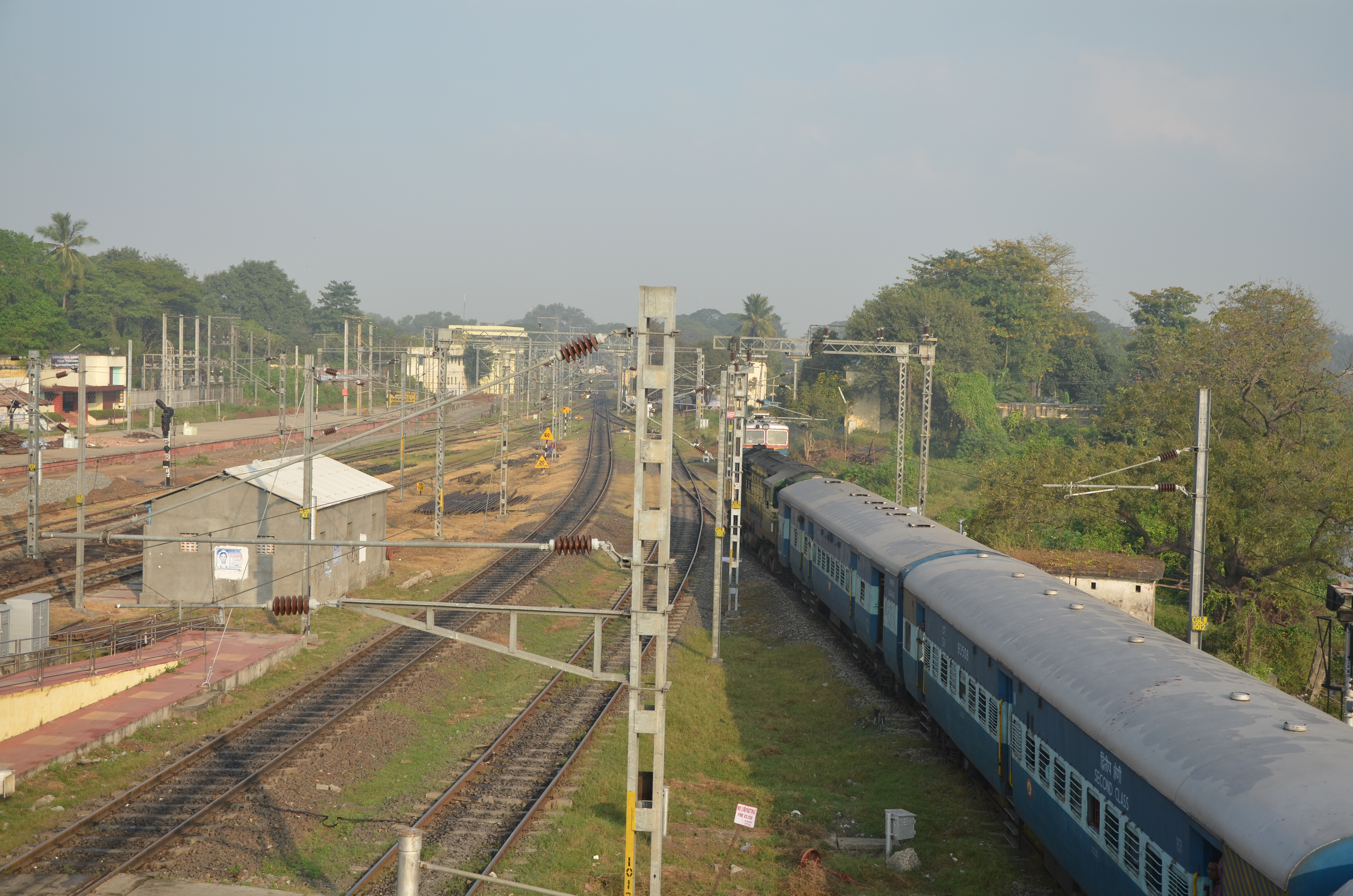 Train leaving the station